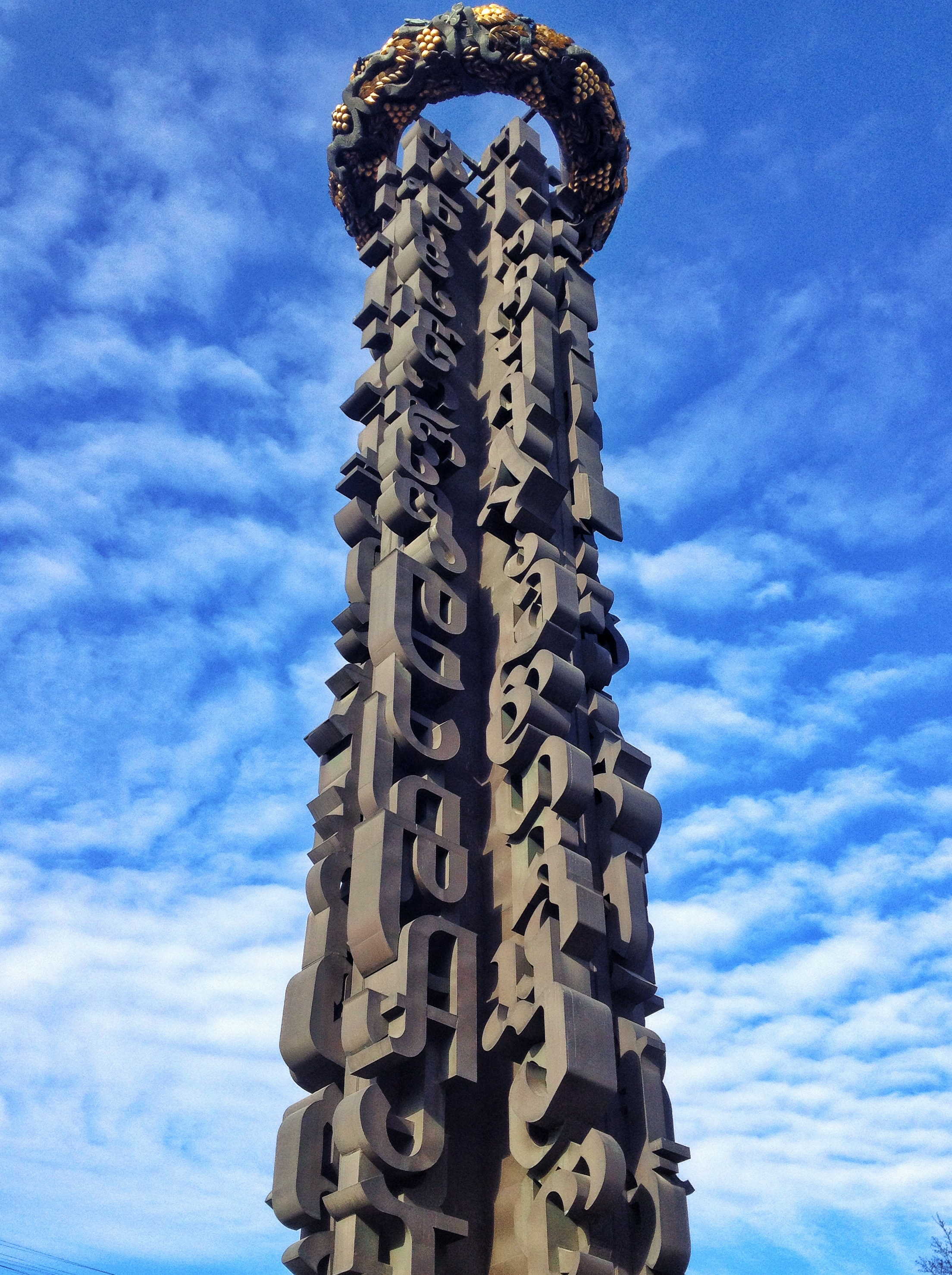 Монумент в честь 200-летия подписания Георгиевского трактата